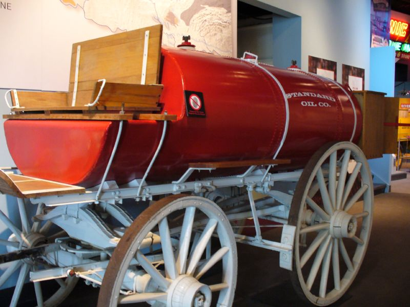 Standard Oil Company truck at the Oklahoma History Center.